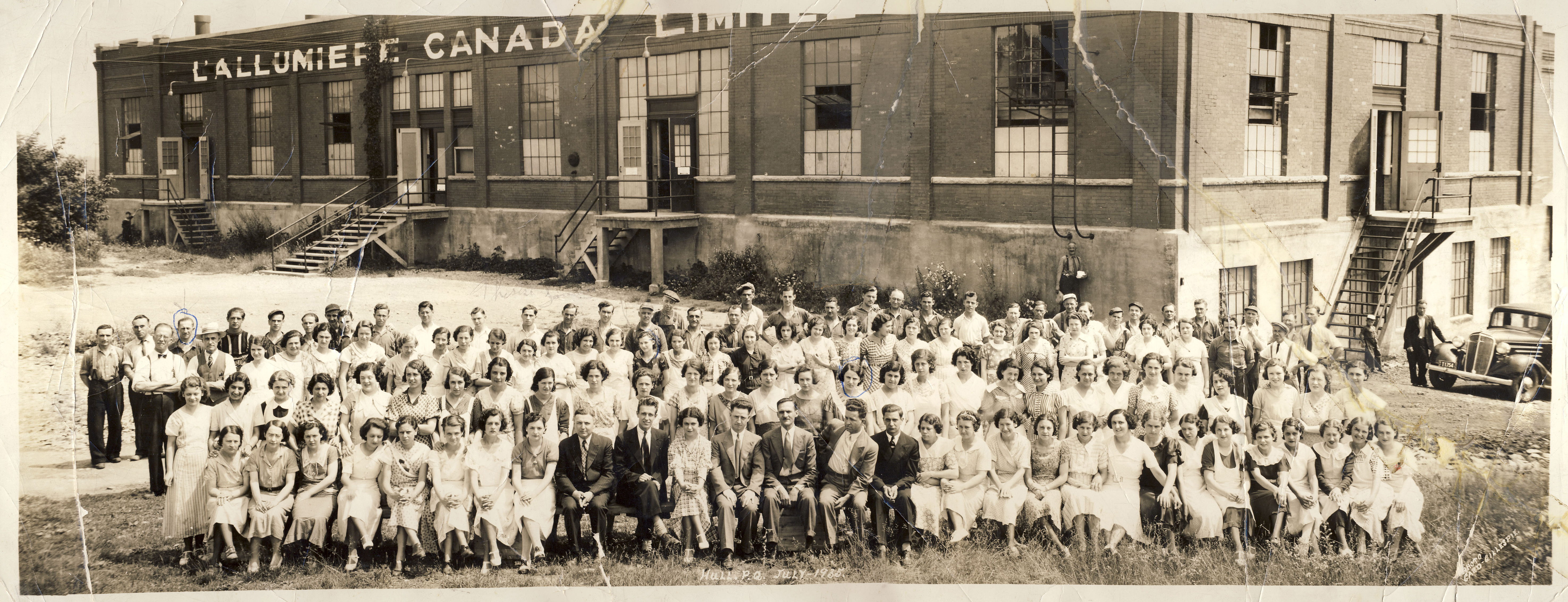 Photograph of employees, mostly women, of the Allumière Canada limitée posing in front of the factory on Tracy Street (now Dumas).